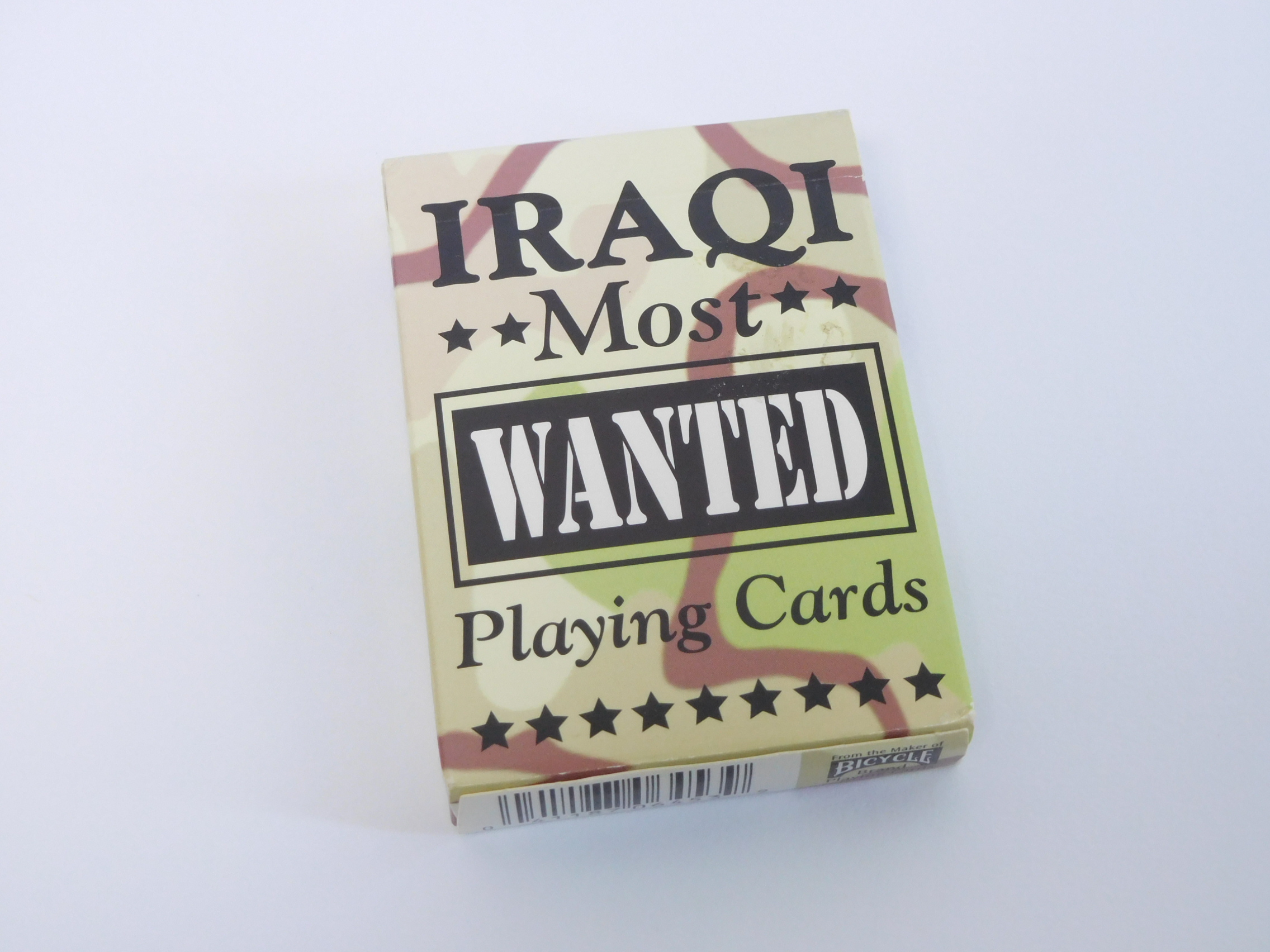 Most-wanted Iraqi playing cards